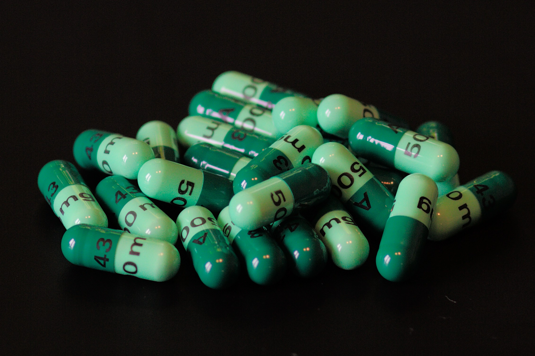 Pills of the antibiotic cefalexin (also known as cephalexin, Keflex, or Ceporex).